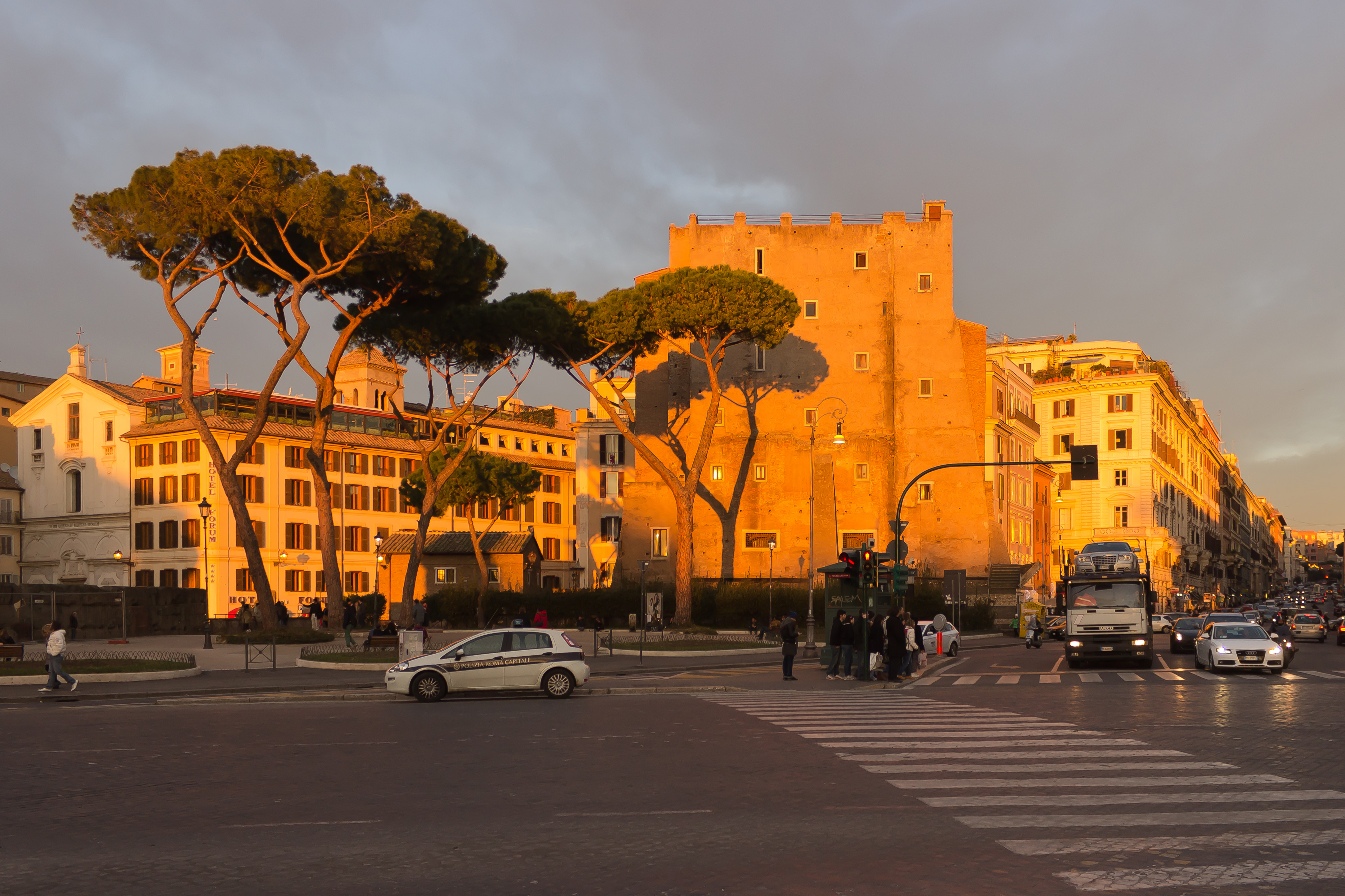 View on Largo Corrado Ricci and Tor dei Conti, from Via dei Fori Imperiali (Rome)